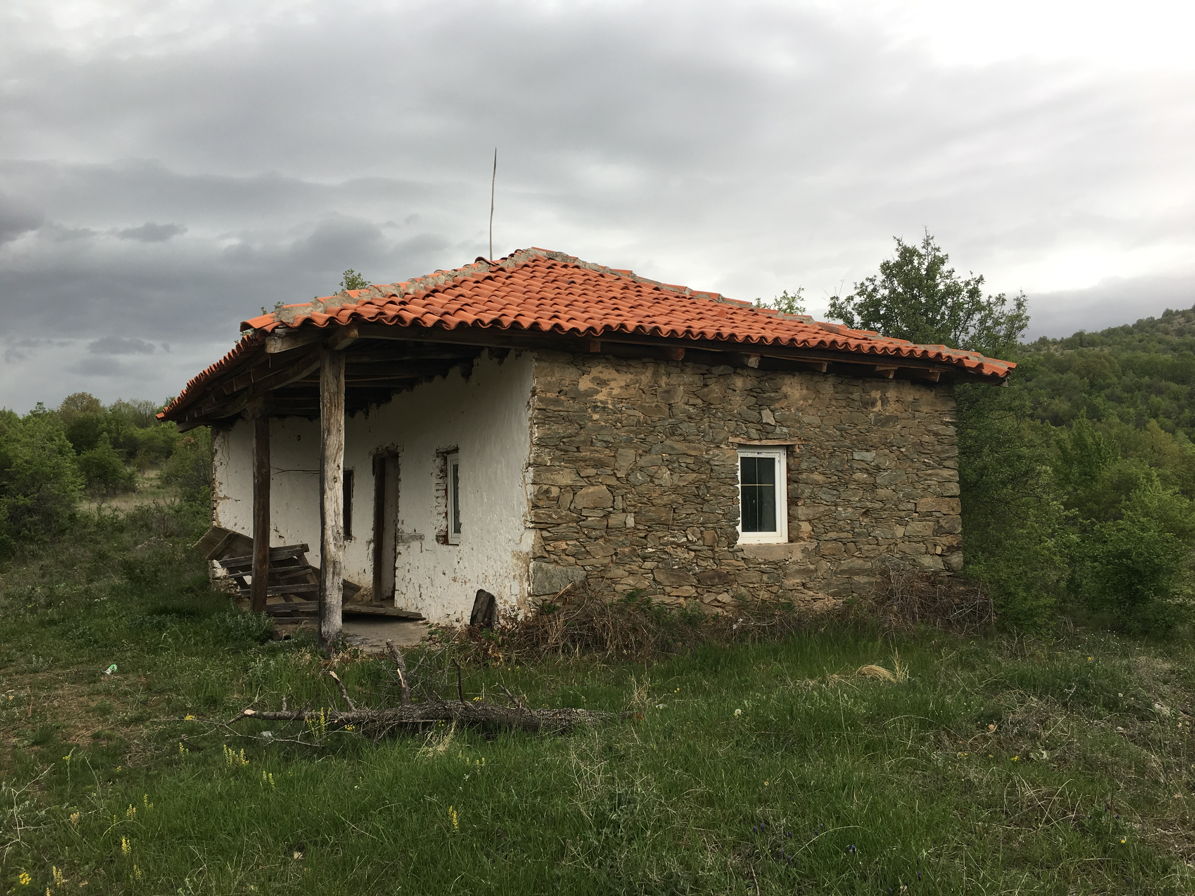 A house in the village of Dlabočica